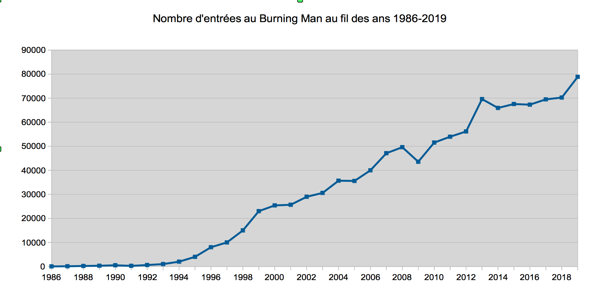 Number of admissions to Burning Man, year after year since 1986.